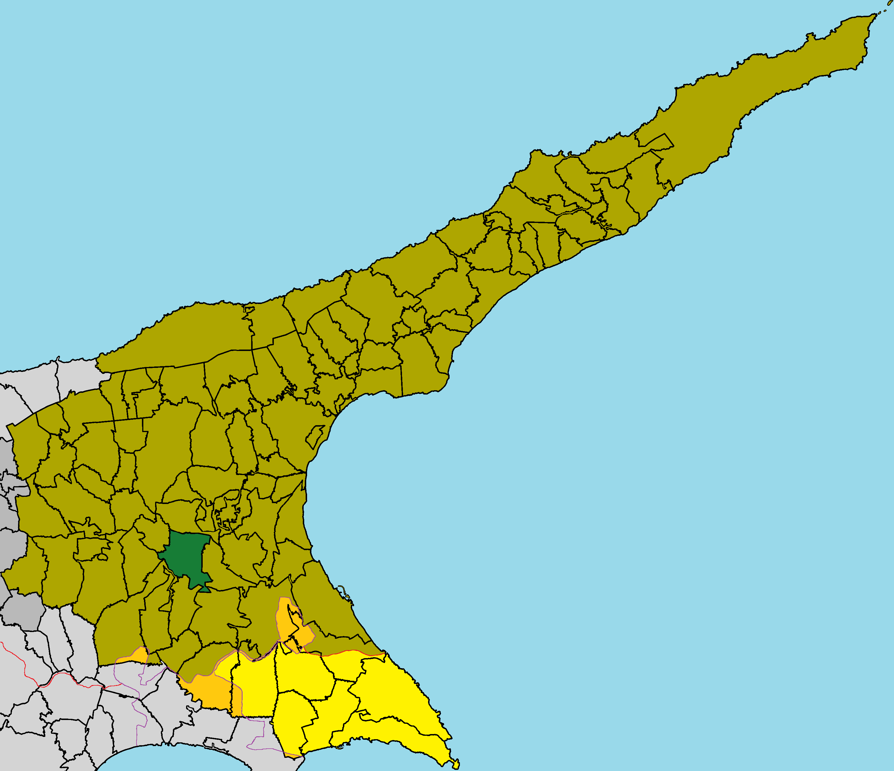 Prastio Ammochostou in Famagusta District (de jure).